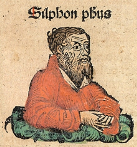 Ancient Greek philosopher Stilpo of Megara, depicted in the Nuremberg Chronicle, (where he is called "Silphon the Megaren philosopher")